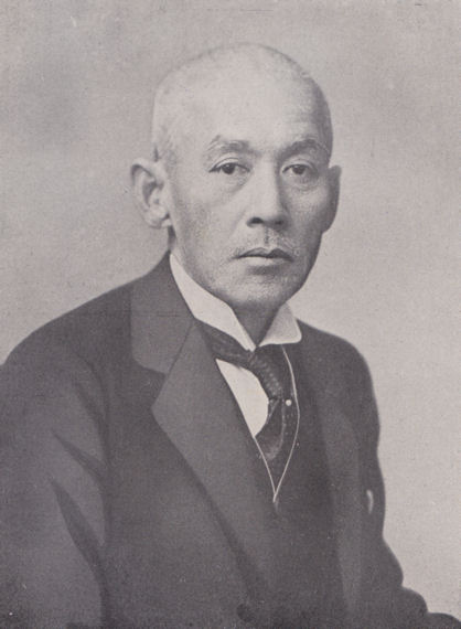 HIDA Kinichiro